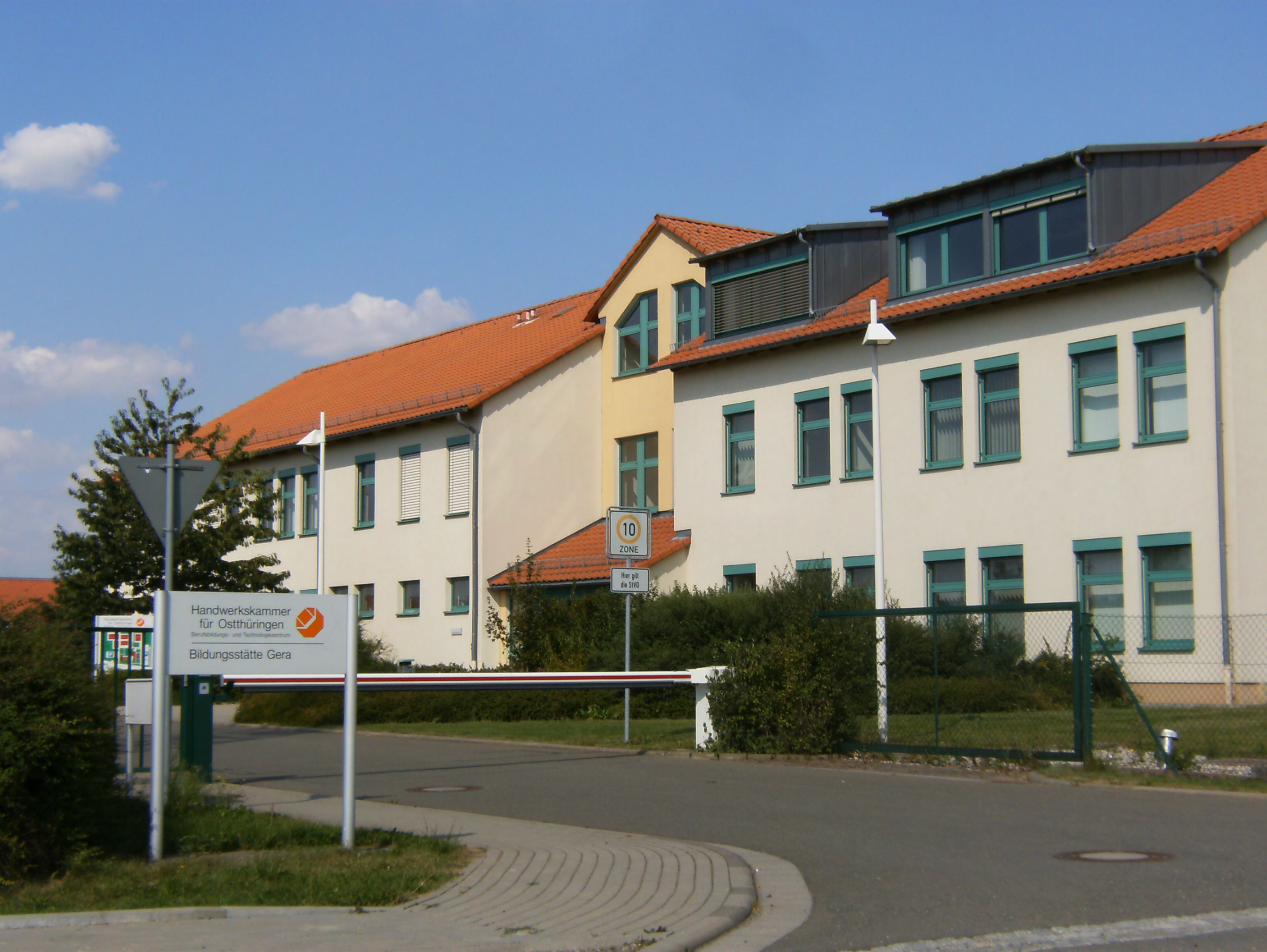 Gera Kleinaga, crafts education camp.